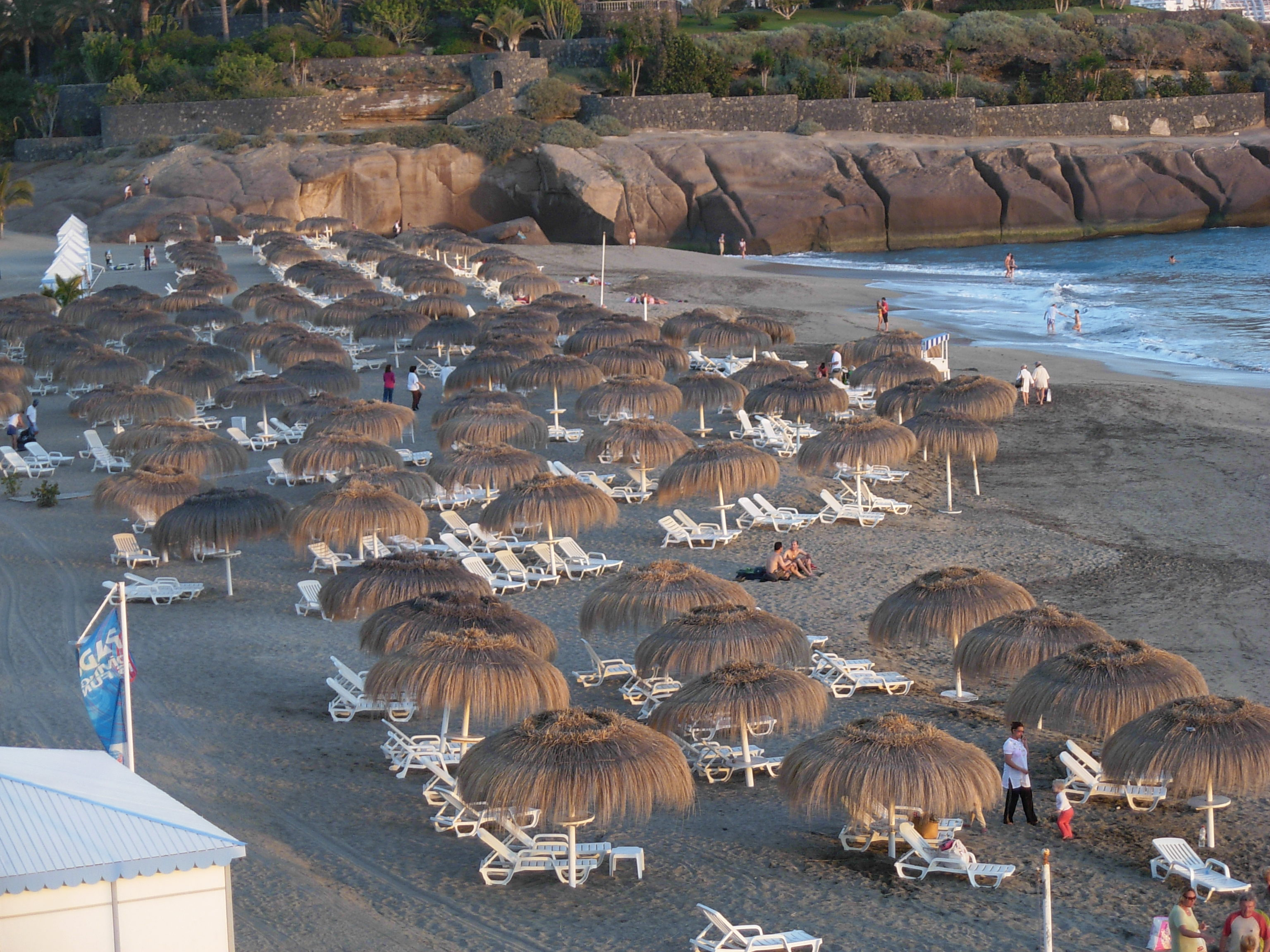 Tenerife – likely Los Christianos or Playa de las Américas. March 2007. Photo by myself.